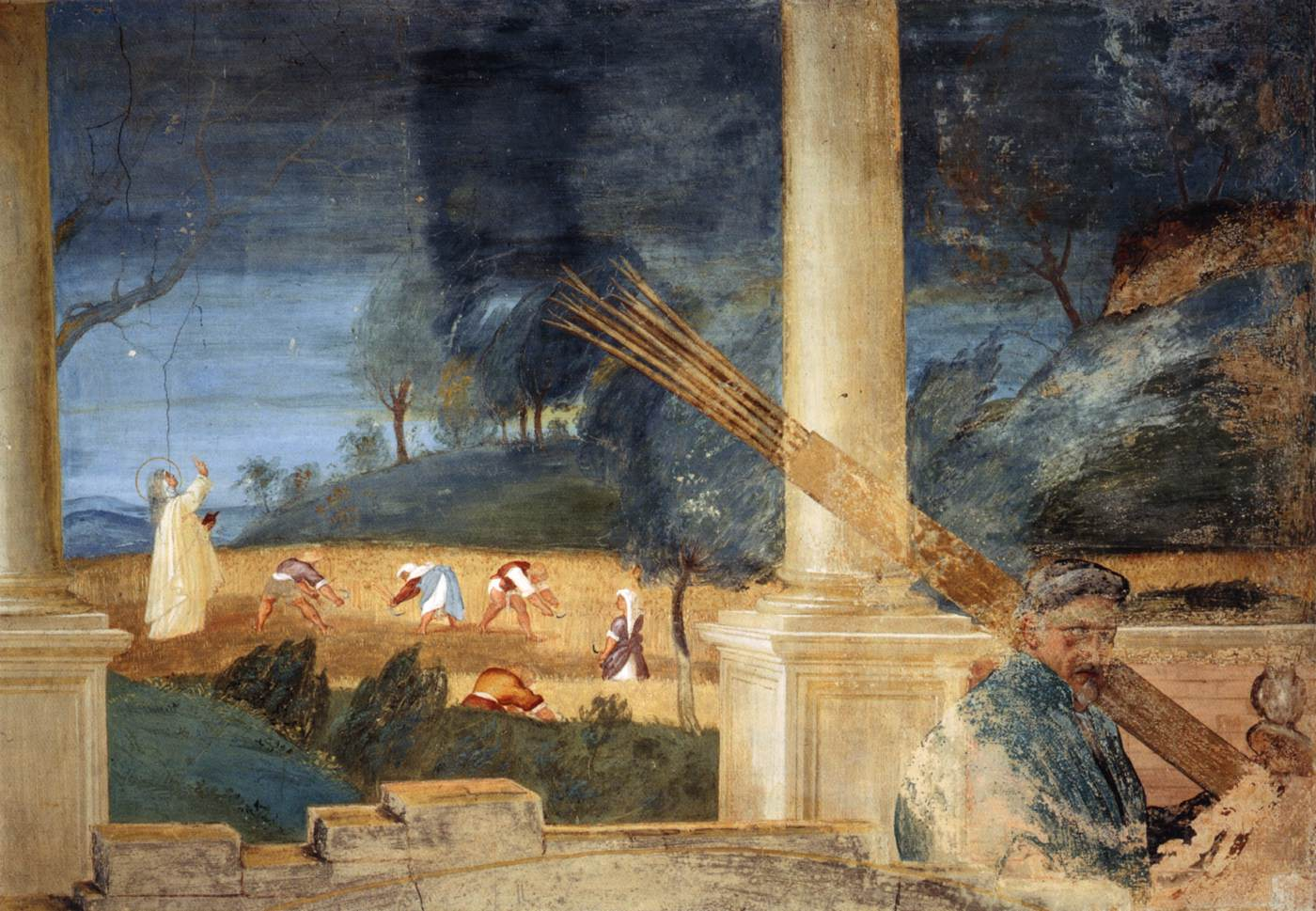 Legend of St Brigid (detail)